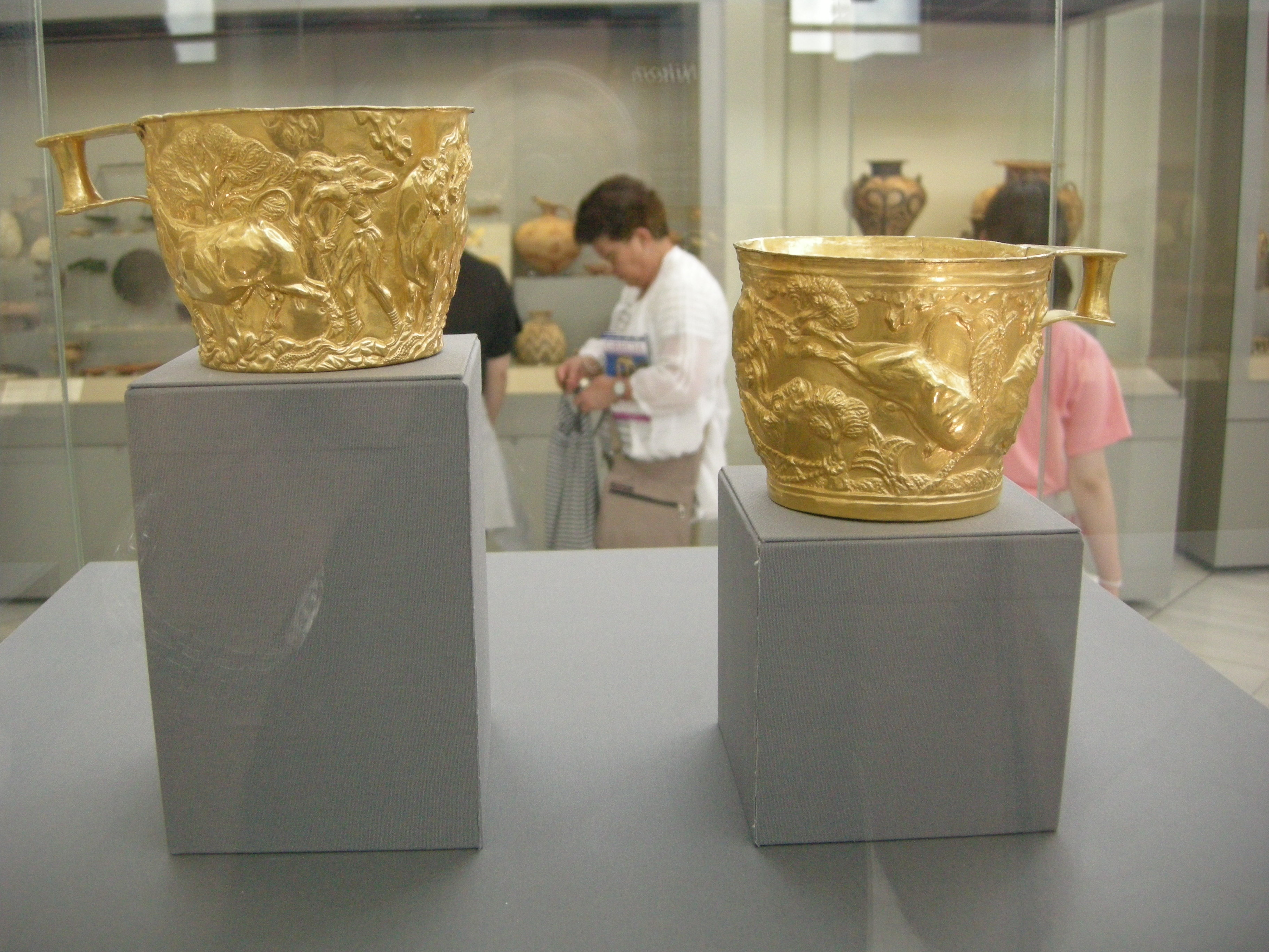 The Vapheio cups. Gold with repoussé decoration, LHII. From the Vapheio tholos tomb, 1888.